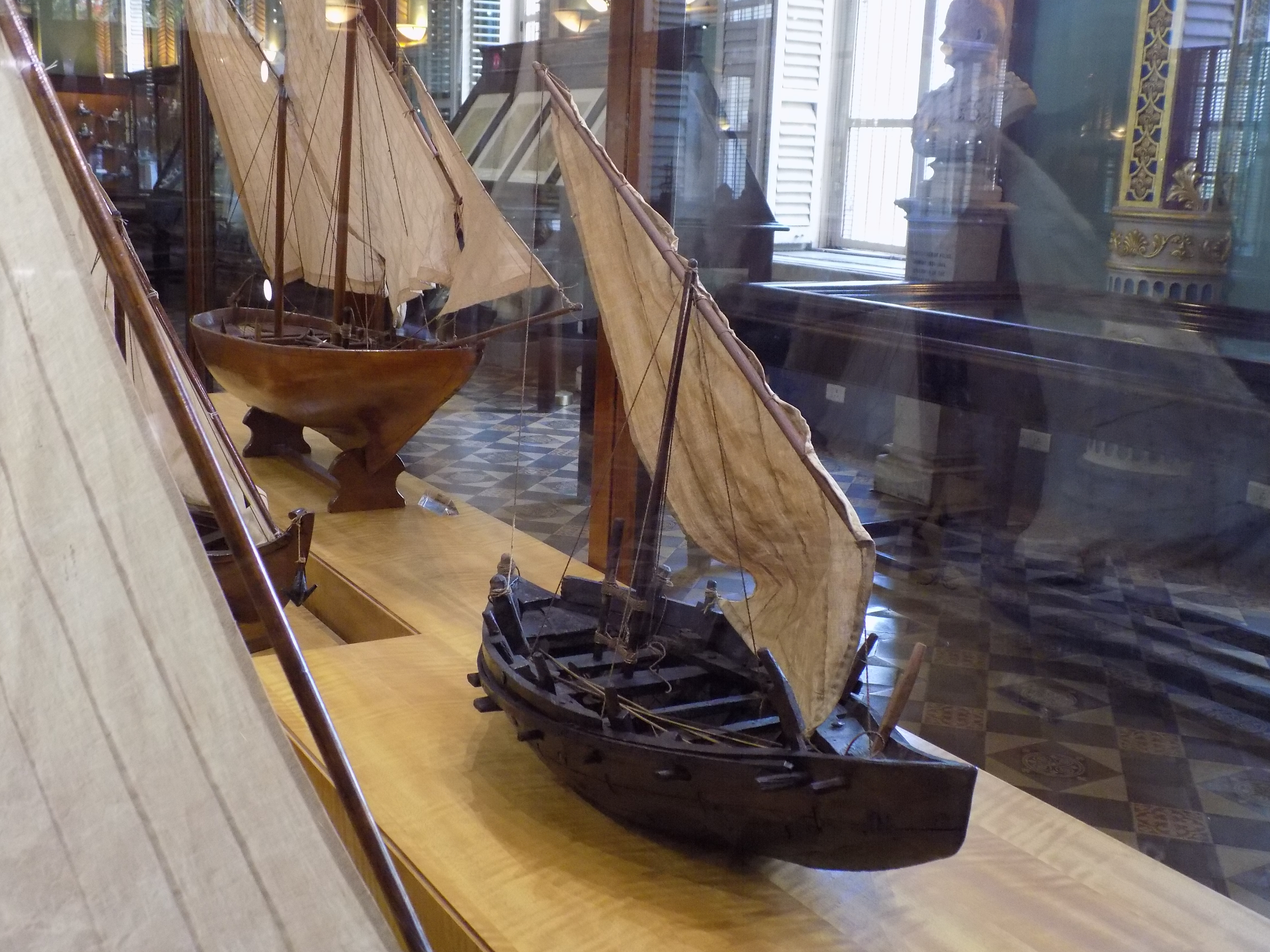 Galbat, anglicized as Gallivat, is ship of the Dhow type. It is square sterned, and vary between 50 to 150 tons. It is both rowed as well as sailed. Originally, these were cargo ships. But due to their light weight and speed, were used as warships by the Marathas